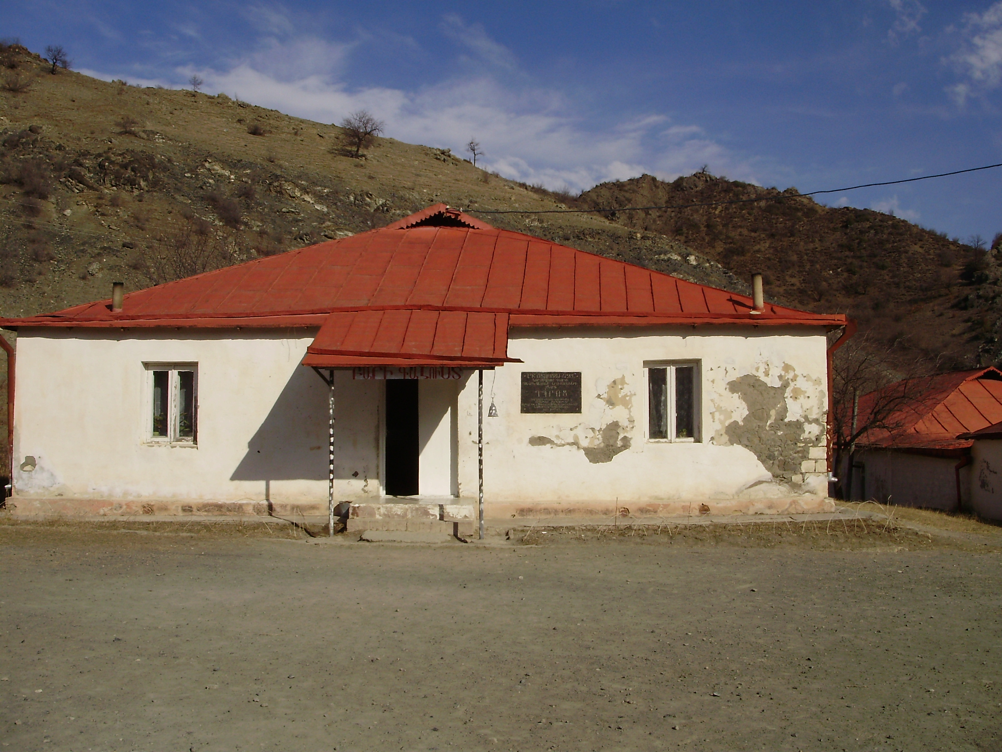 School of Nor Brajur village in Artsakh, Shahoumian region